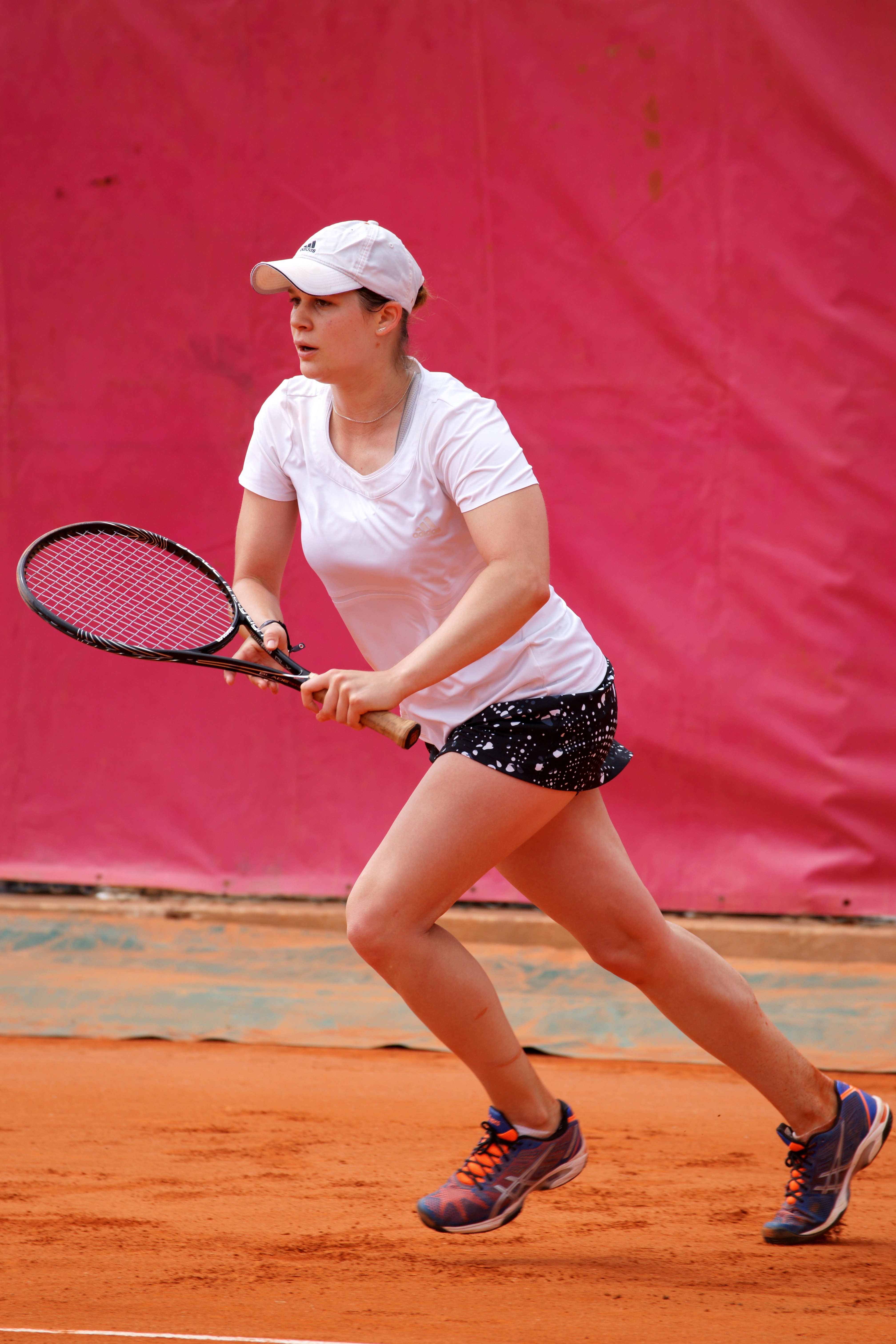 Lara Michel, Open ITF Cagnes 2015